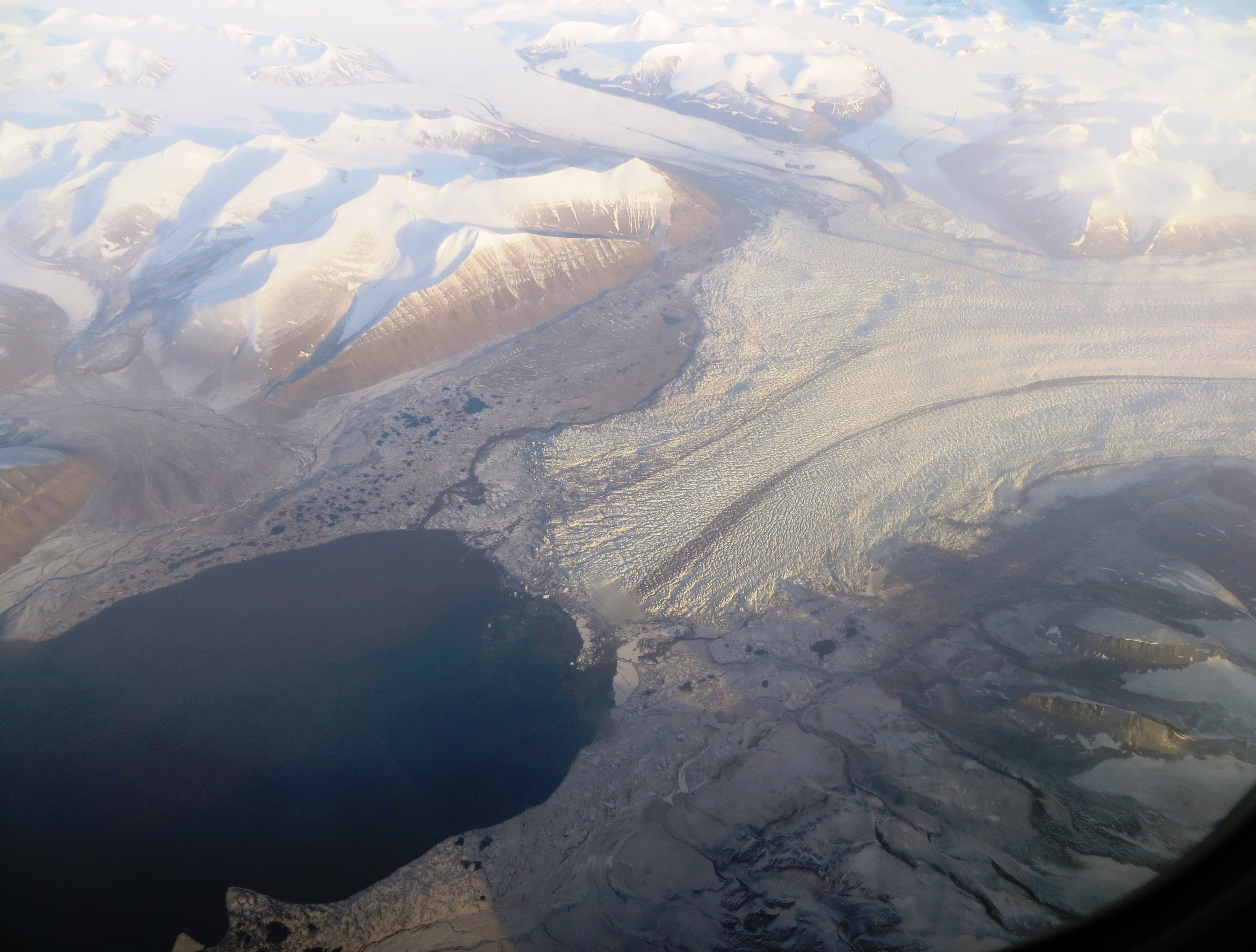 Aerial photo from the west, over southeastern part of Nathorst Land, and western part of Torell Land - eastern Spitsbergen - Svalbard.